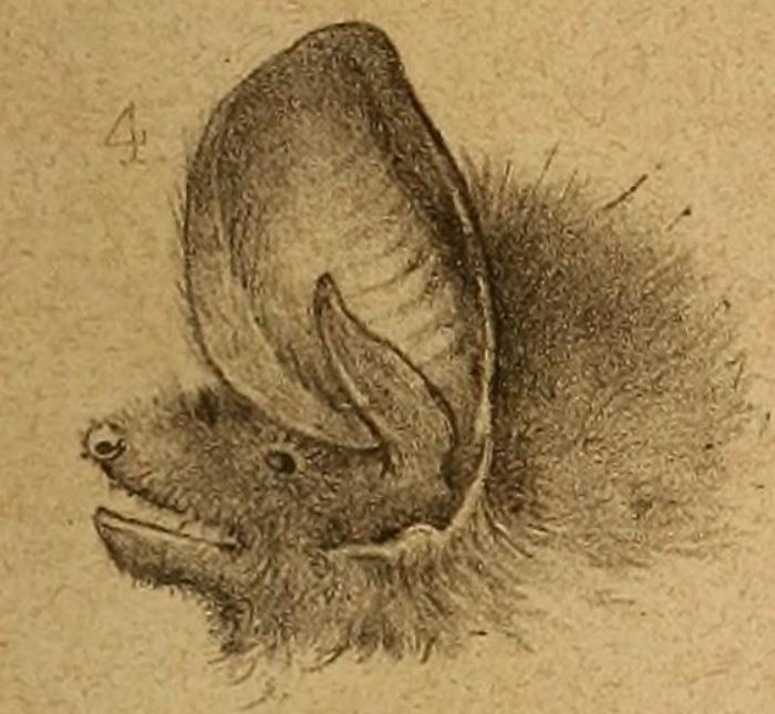 Southern big-eared brown bat face illustration (Histiotus magellanicus, but listed in text as Vespertilio magellanicus)